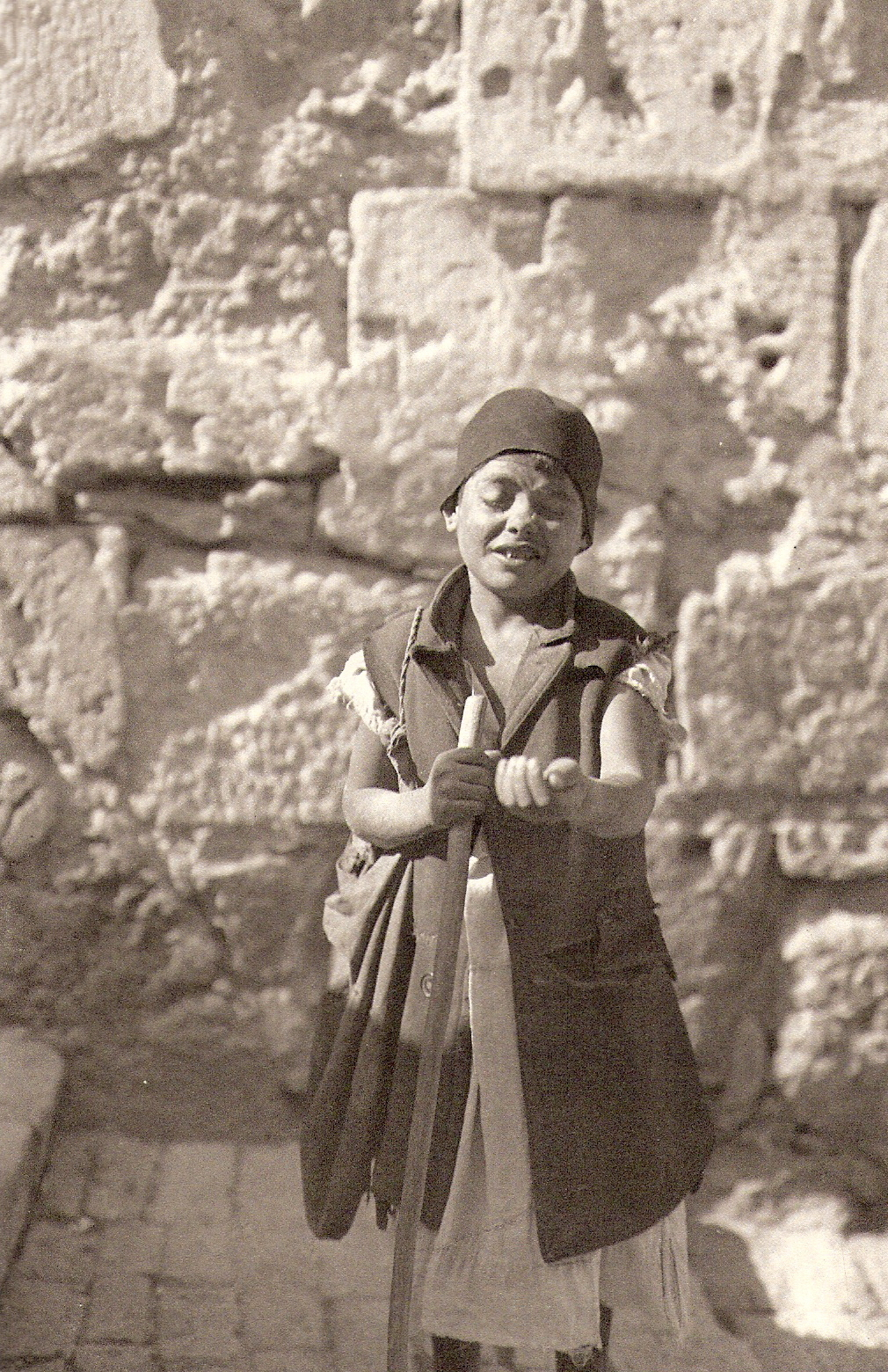 Jerusalem, 1925 - Beggar boy